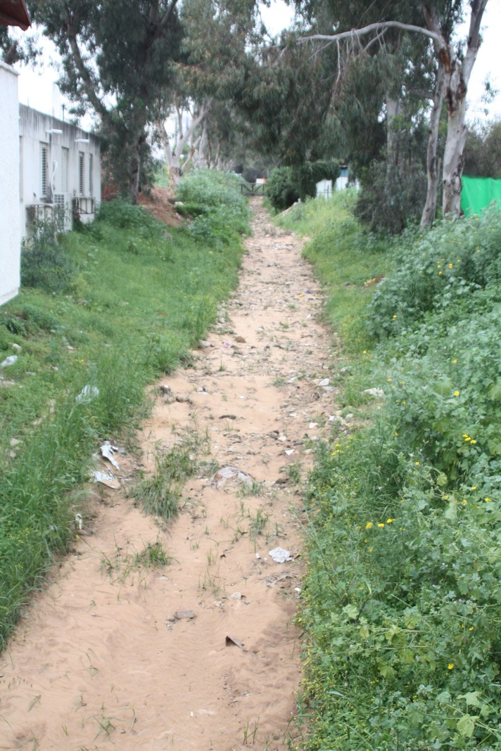 Hadarim Stream